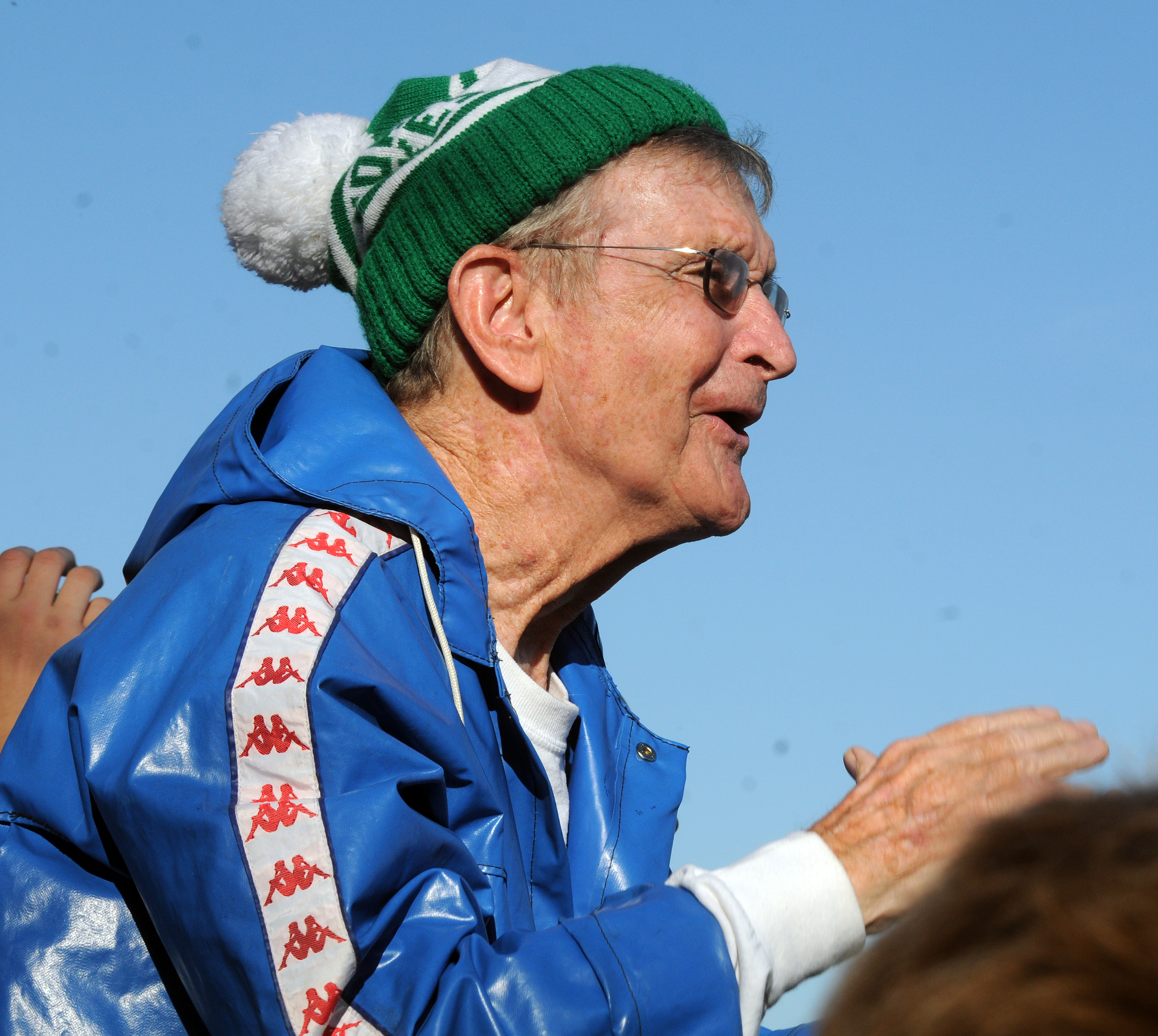 Coach Joe Newton at the Illinois State Cross Country Meet in Peoria